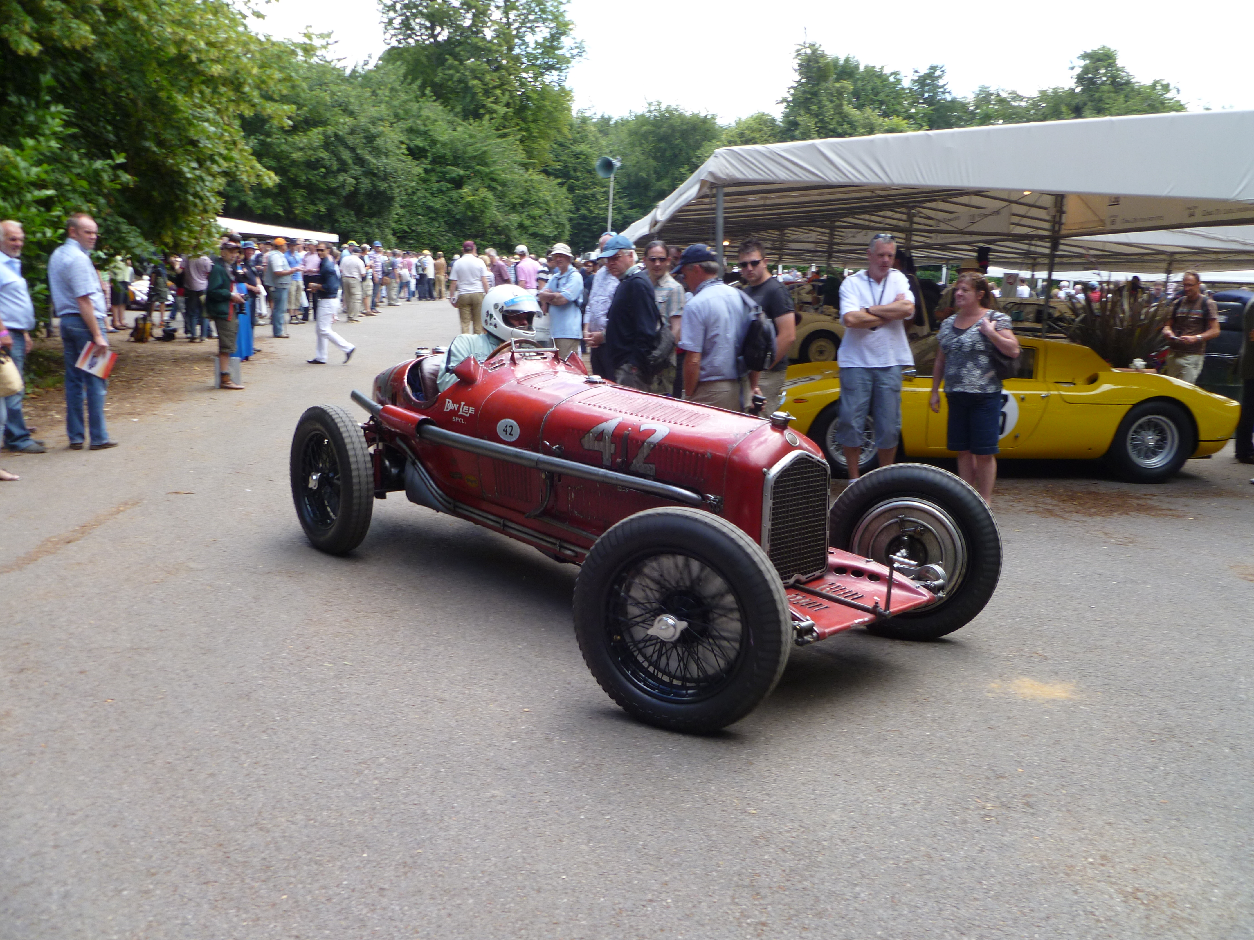 1932 Alfa Romeo Tipo B ‘Don Lee Special’ 50007